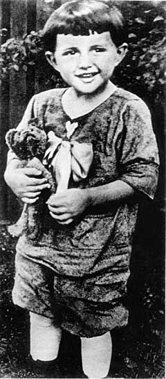 American pianist Liberace with teddy bear at the age of 3. (ca. 1922)